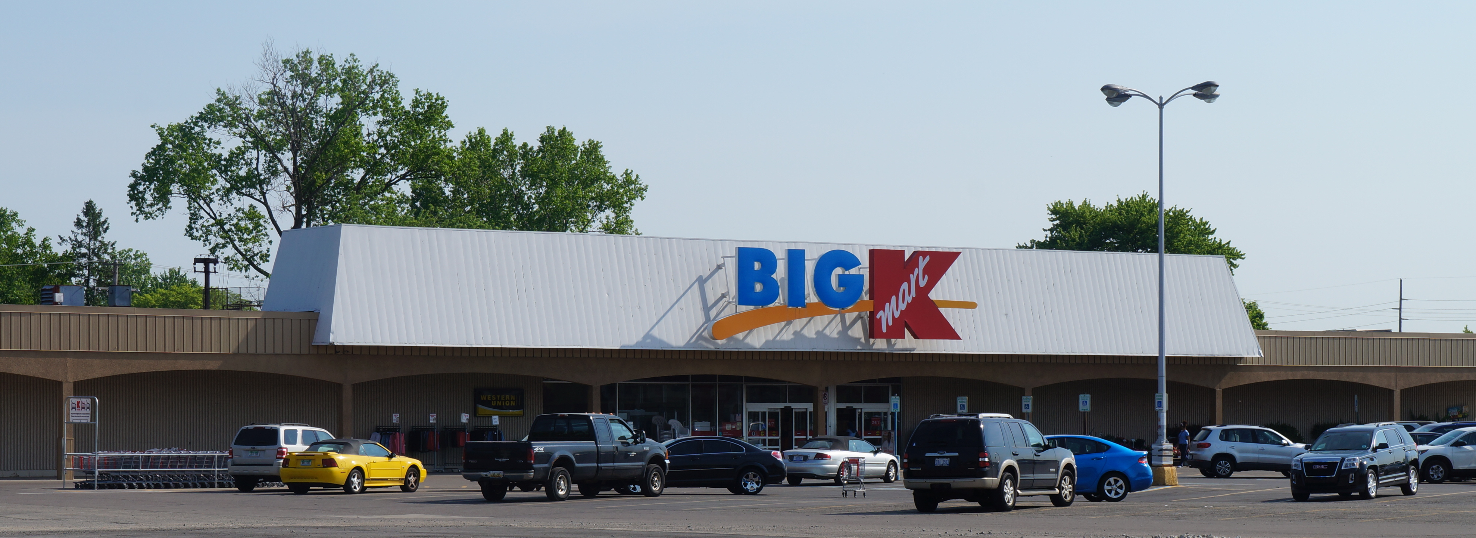 First Kmart - Garden City, Michigan